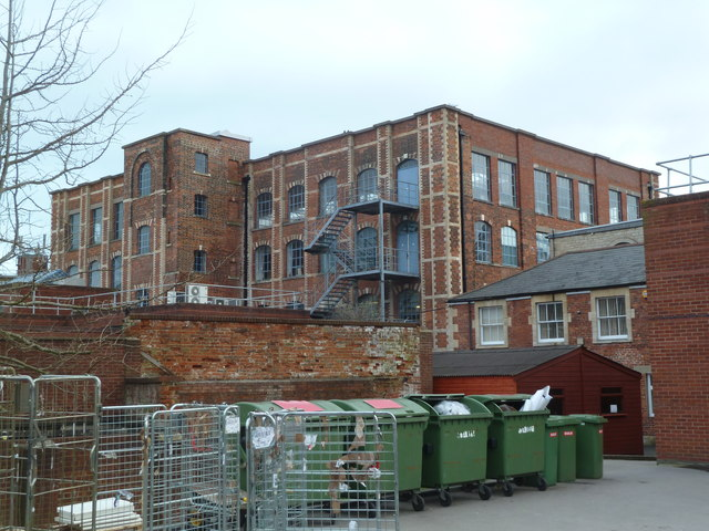 Home Mills, Trowbridge